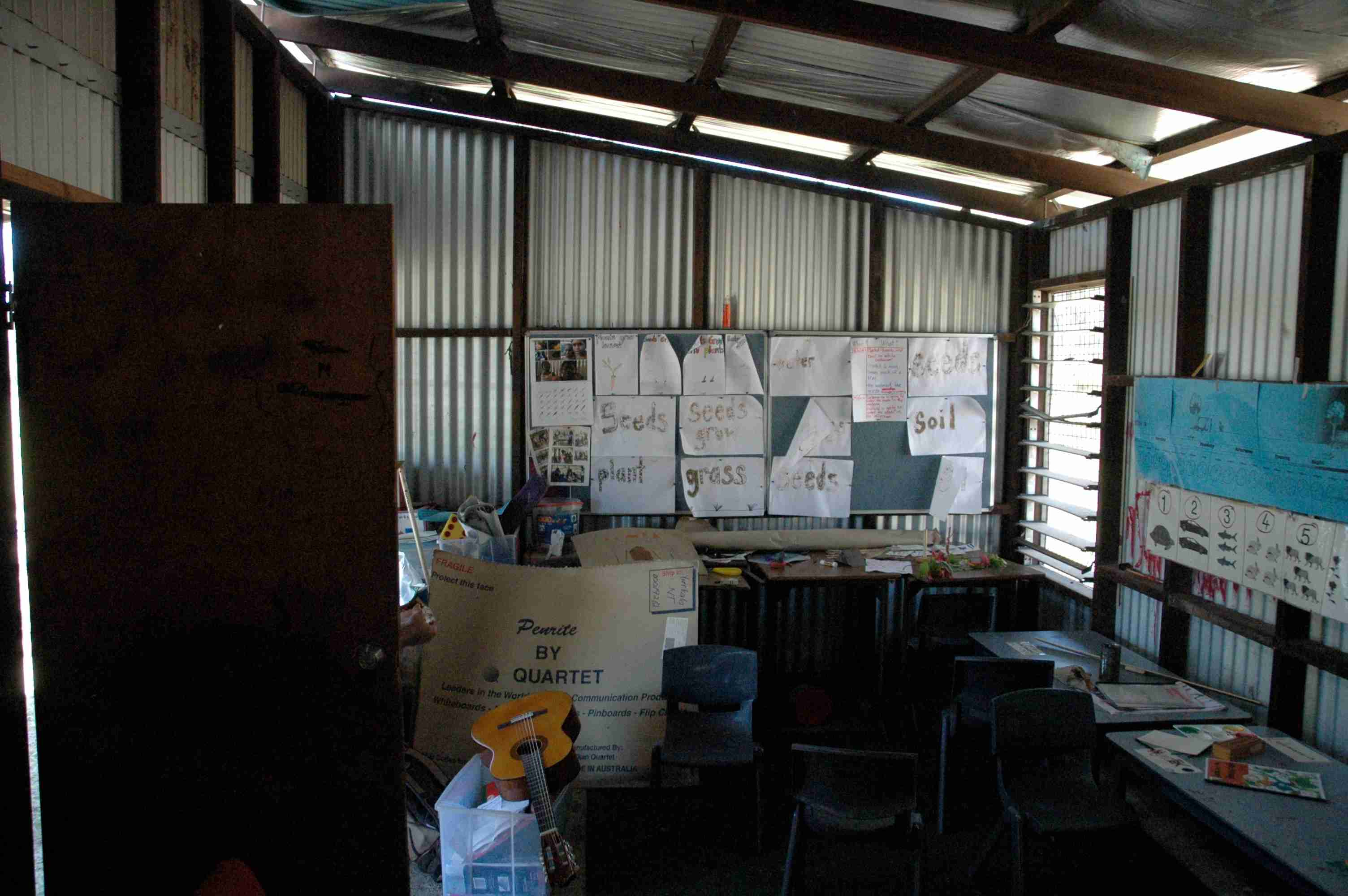 Photo of the interior of the Rurrungala Homeland Learning Centre in 2009